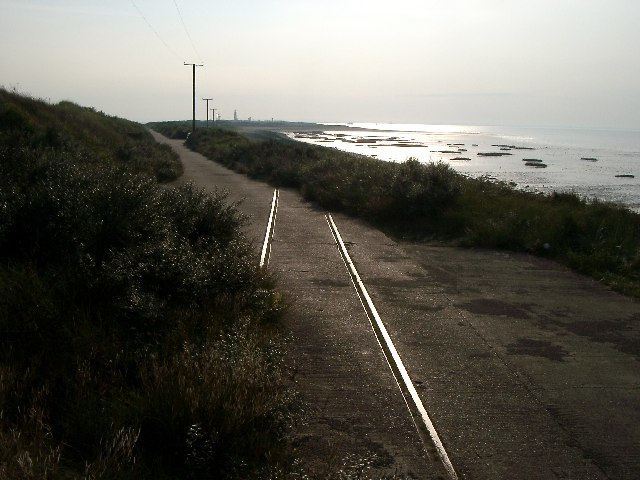 Where's that track going? Spurn Point, East Riding of Yorkshire, England.The track is from the first world war to supply a base on Spurn protecting the mouth of the Humber. It now aims at Humber mudflats, indicating the shifting of Spurn Point - it is actually growing seaward at this point.